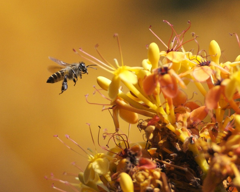 Not sure which colour scheme I prefer 1 or 2 above In case you are wondering the background is formed by similar yellow saraca blooms on the same tree. Subject is a honey bee, not sure which species 690V2650.jpg